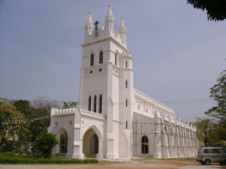 St. Georges Church Abids, Hyderabad.